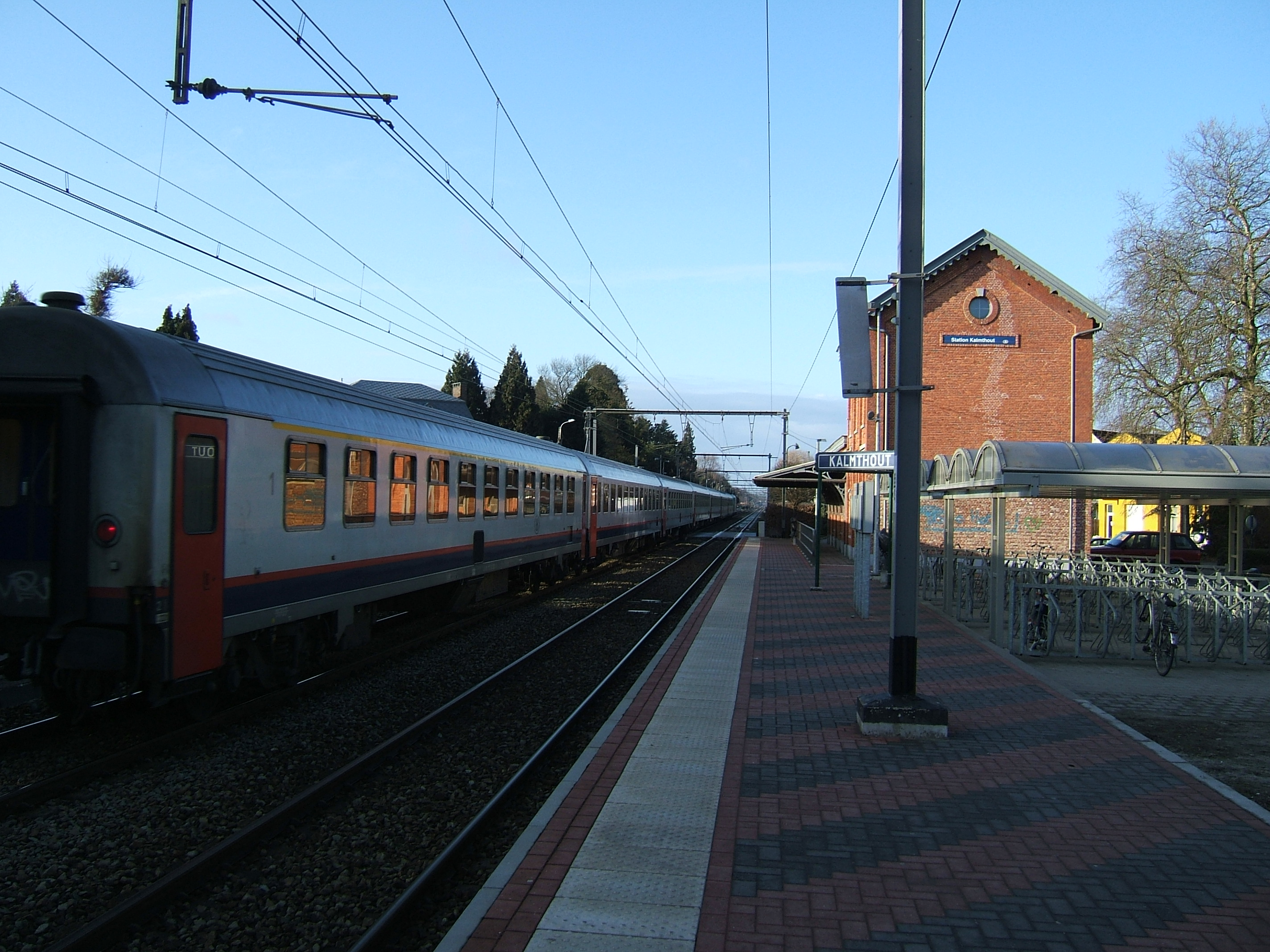 Benelux with I10 coaches passing through